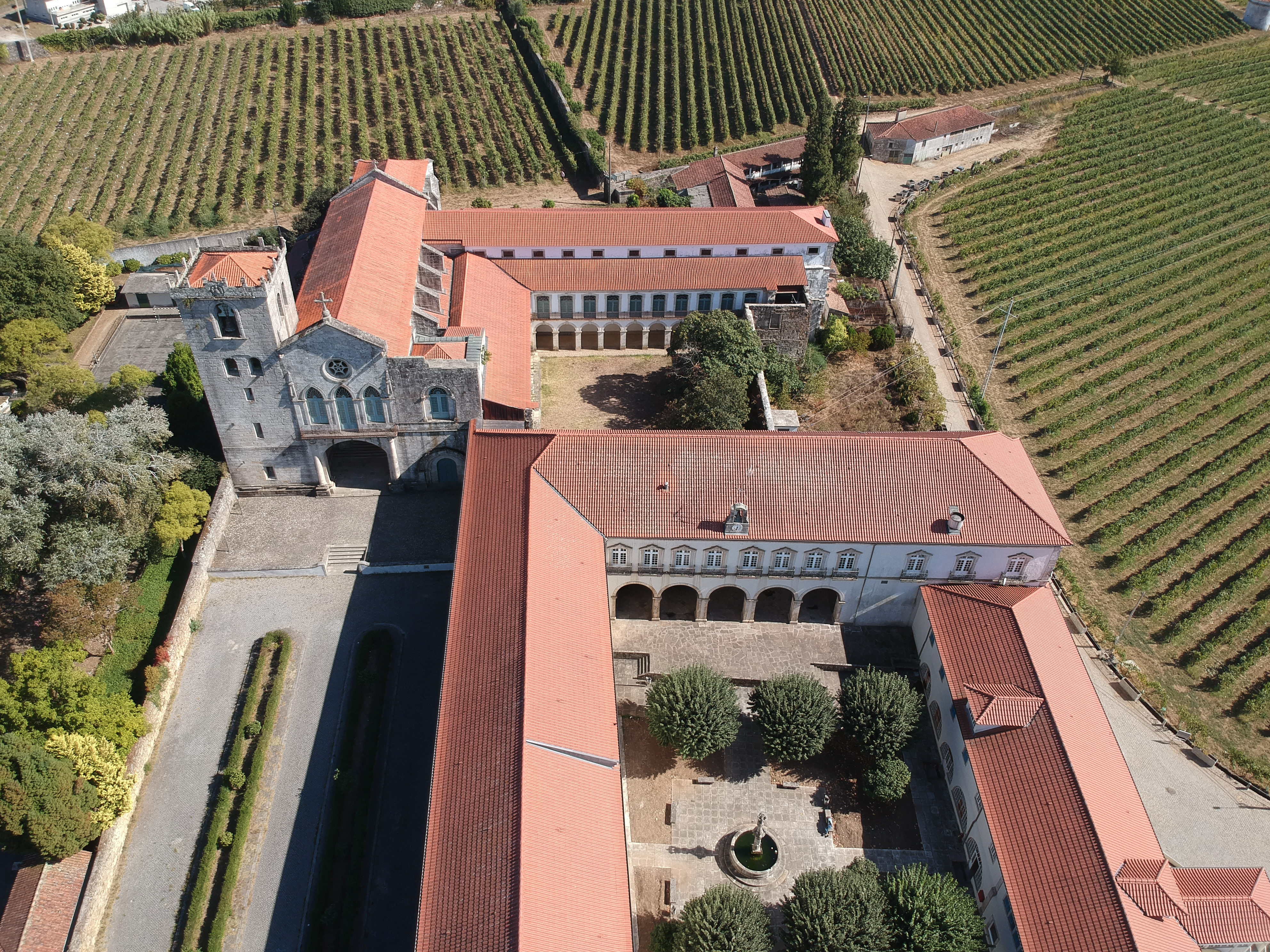 Igreja de Vilar de Frades, Barcelos, Portugal.